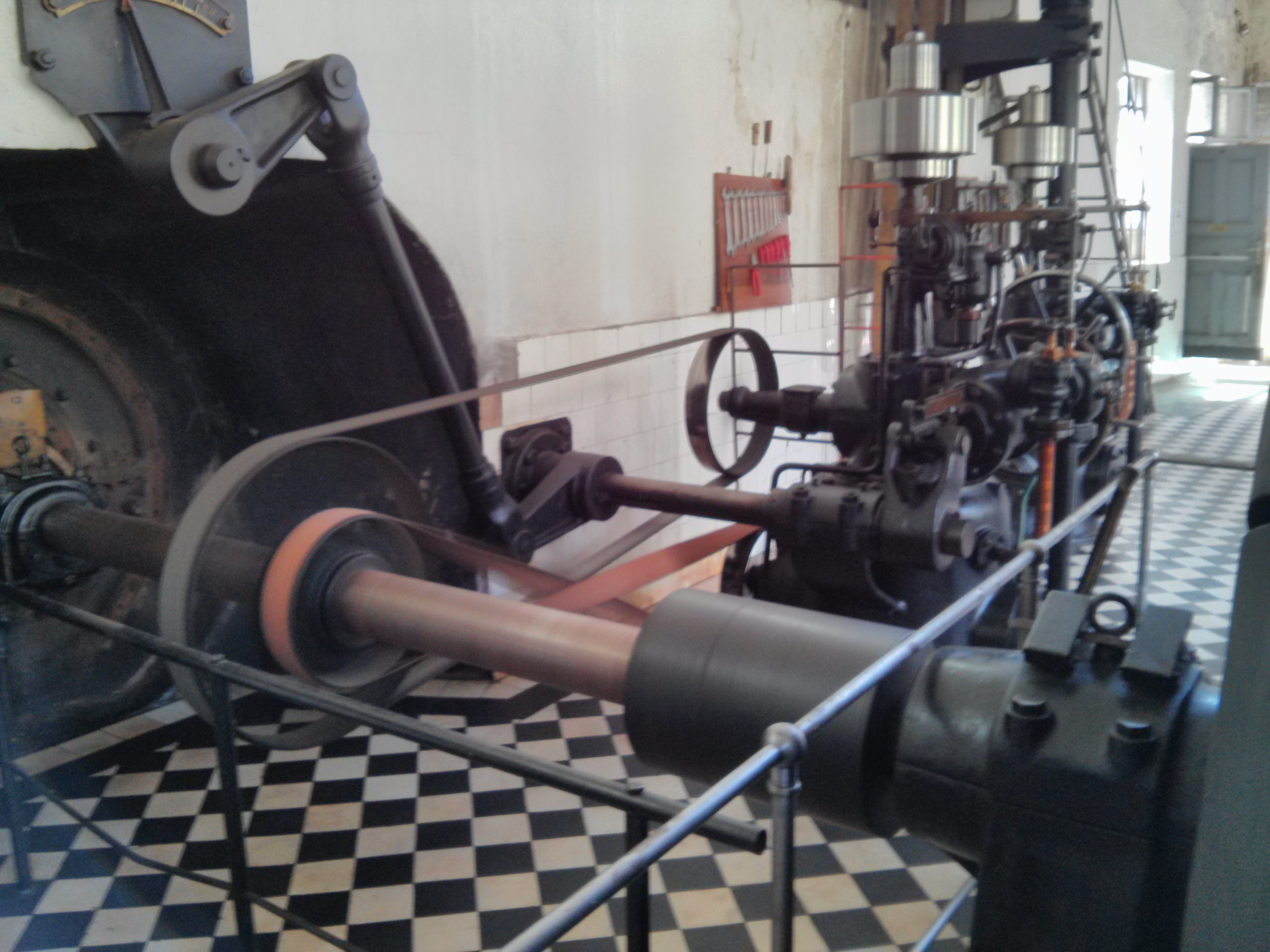 Siemens-Schuckert generator, powered by the Nisava river in Sićevo